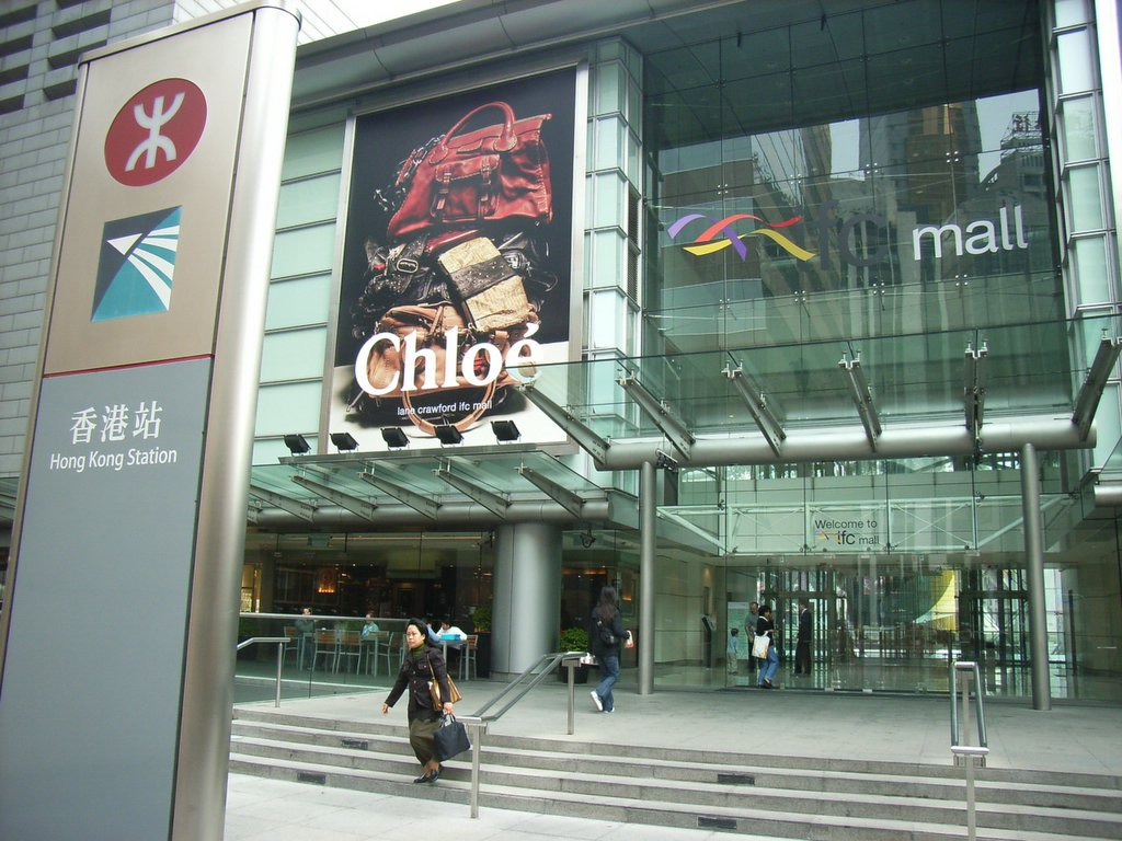 IFC mall near the MTR Hong Kong station